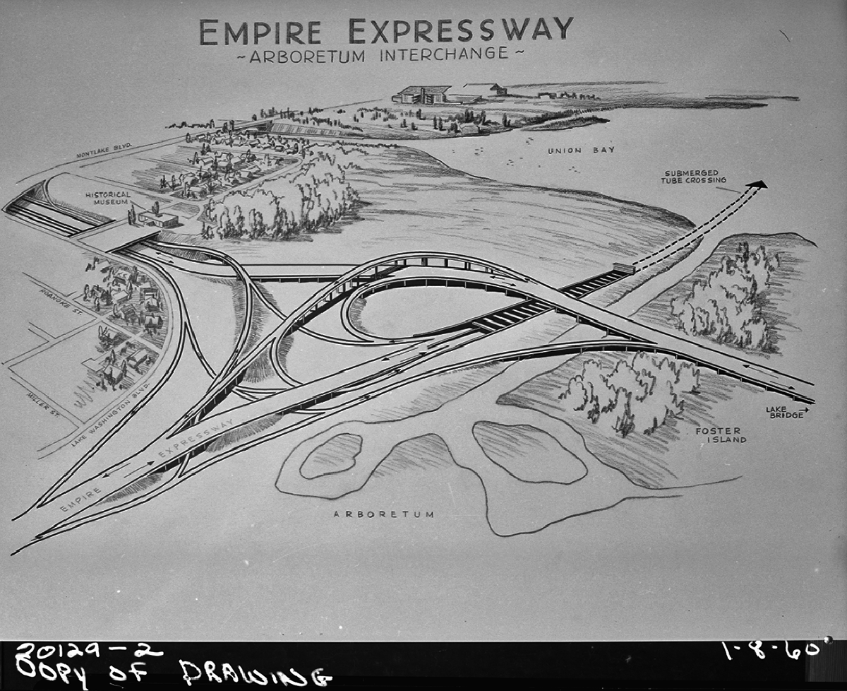 Proposed interchange between Washington State Route 520 and the never-constructed R.H. Thomson Freeway or R.H. Thomson Expressway (in this early drawing "Empire Expressway"). Much of the interchange was built -- the so-called ramps to nowhere in the Washington Park Arboretum -- but the freeway was not. Item 63320, Engineering Department Photographic Negatives (Record Series 2613-07), Seattle Municipal Archives.